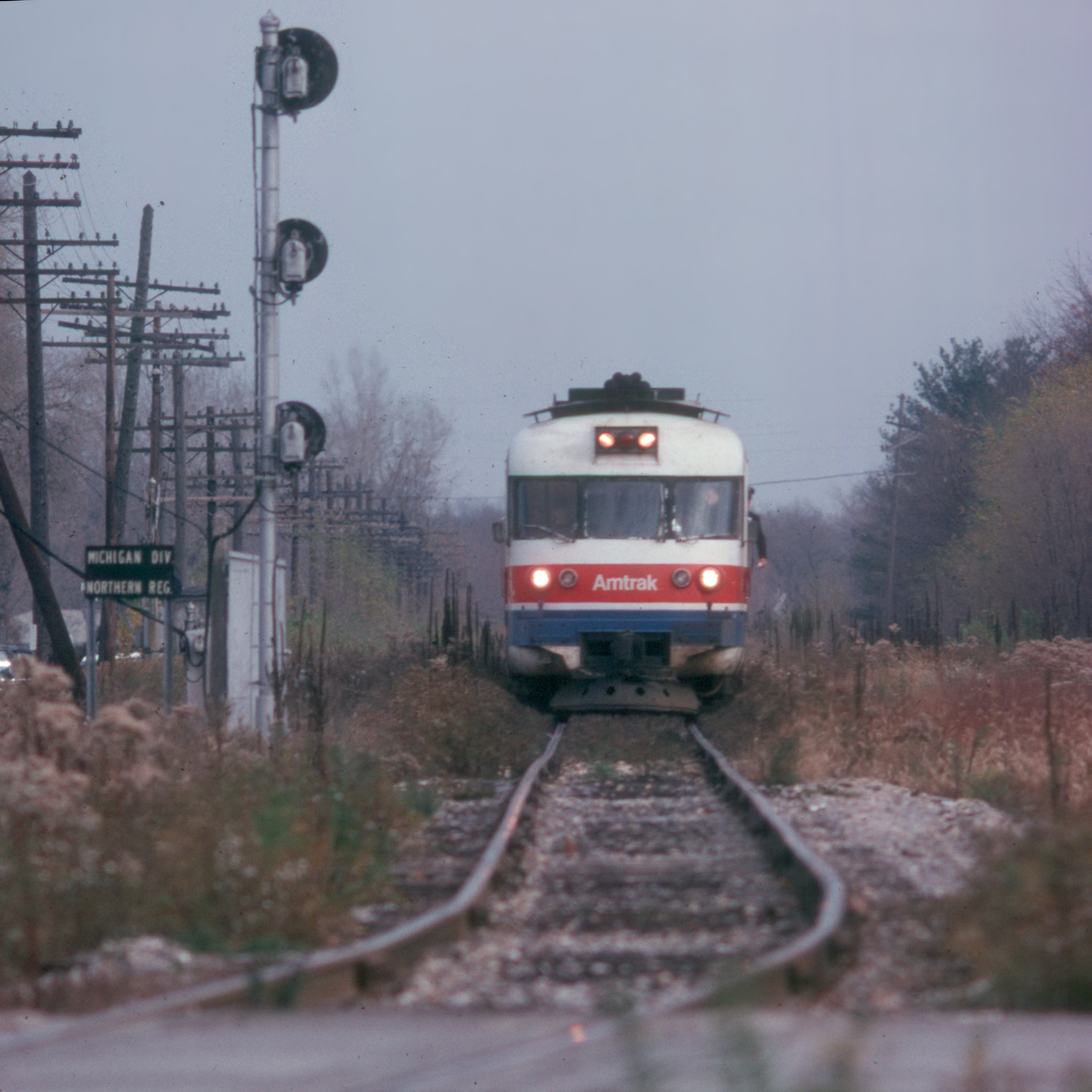 Amtrak Turboliner #66 westbound at Porter, Indiana in November 1977. This is either the Blue Water Limited or St. Clair, both of which still used the Turboliners at the time after the Wolverine and Twilight Limited were equipped with Amfleets.